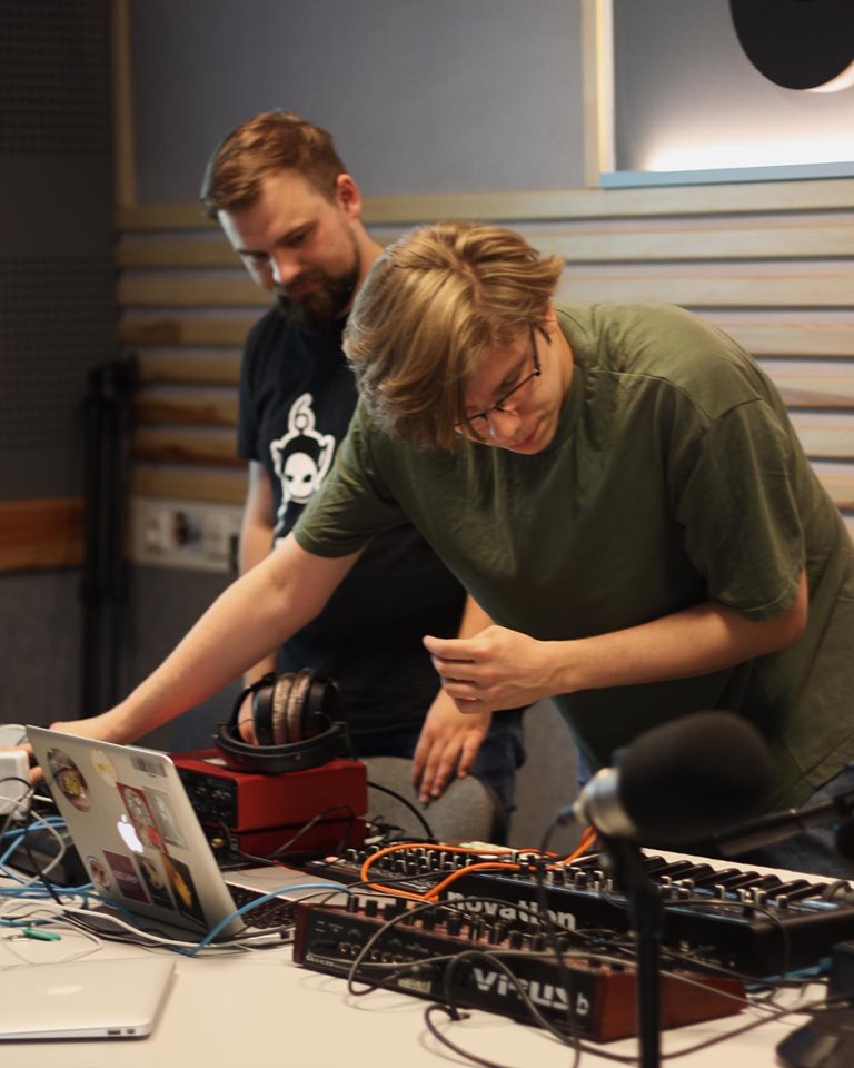 Palmer Eldricht and live act in Beat Tools radio show